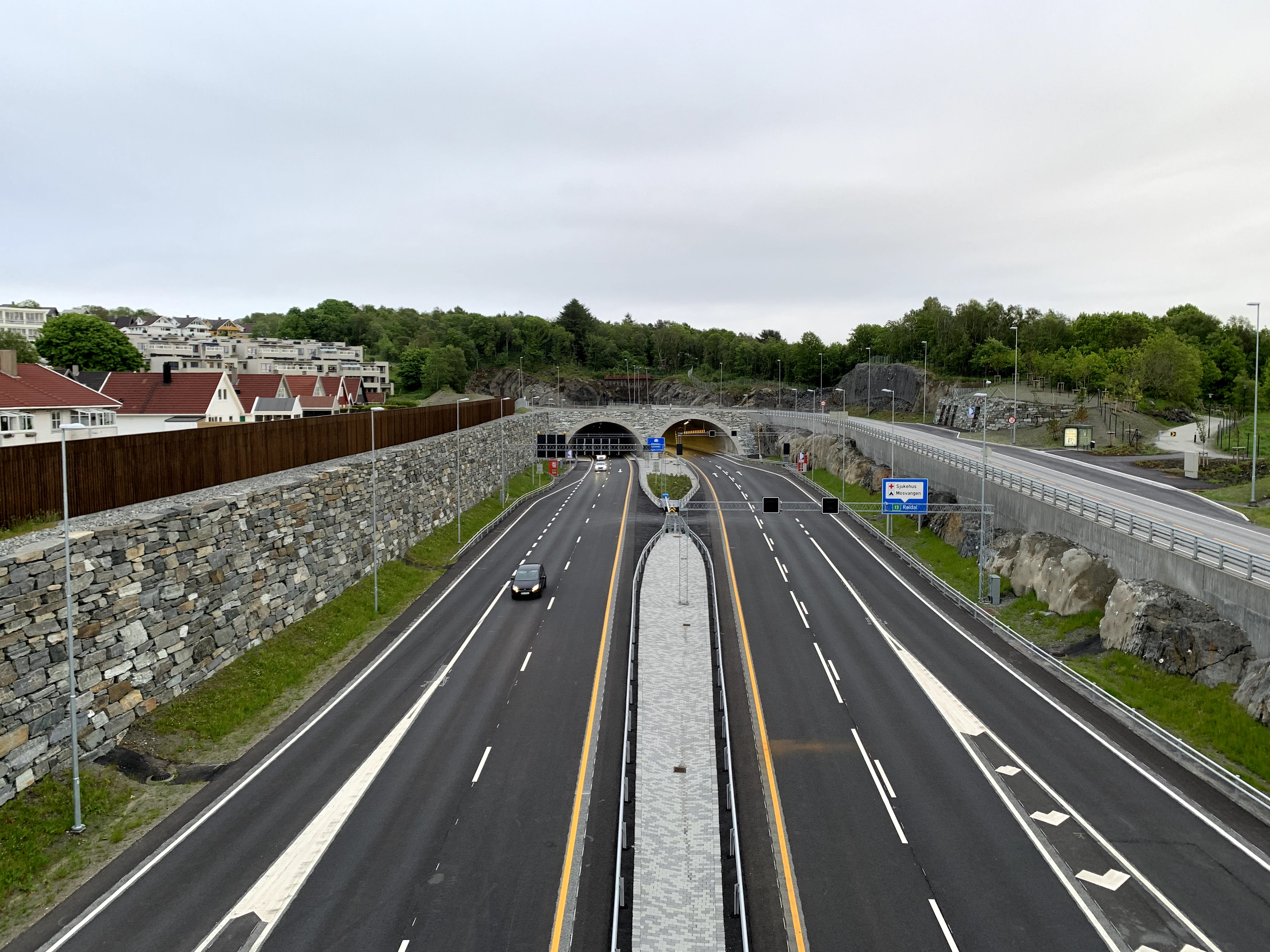 E39 Eiganestunnelen in Rogaland, Norway. North entrance.